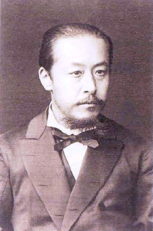 Tanaka Fujimaro (田中 不二麿?, 16 October 1845 – 8 September 1909) was a statesman and educator in Meiji period Japan.